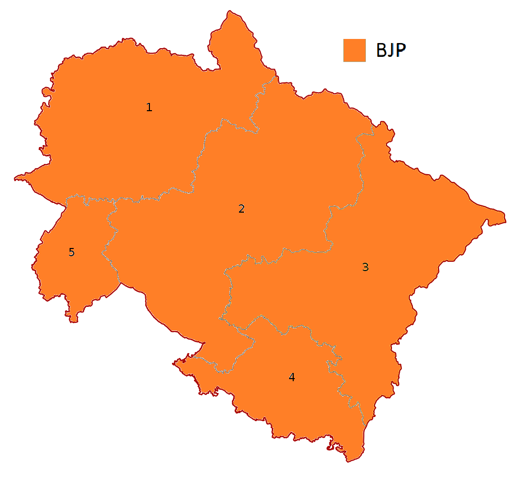 NDA Seat Sharing in Uttarakhand in 2019 General Election